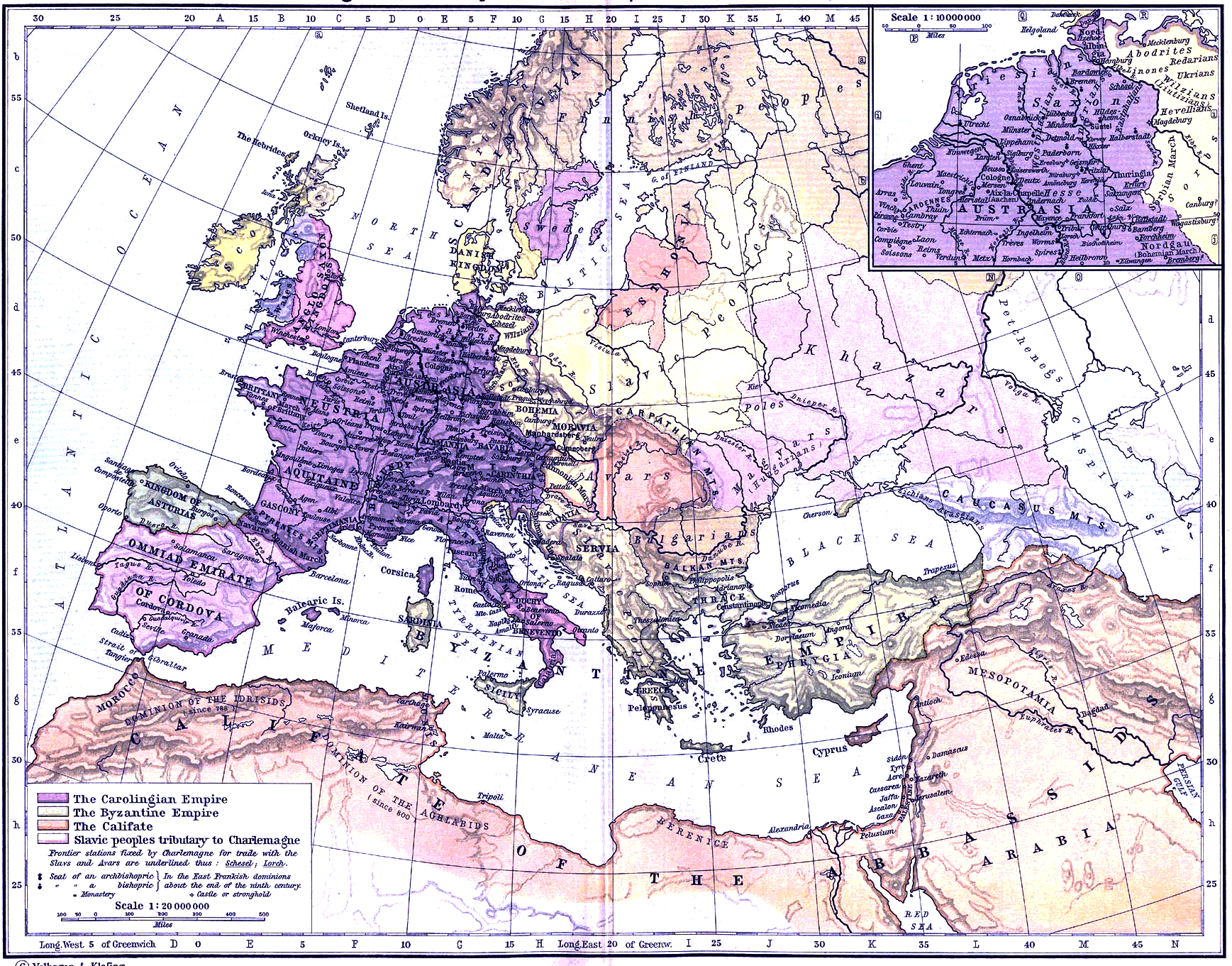 Europe around 800 (public domain map)